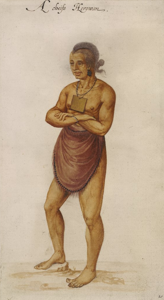 A chiefe Herowan, watercolor by John White depicting the weroance ("chief") of a Native American community. The identity of the man and his tribe are unknown, but he is generally presumed to be the Secotan leader Wingina.